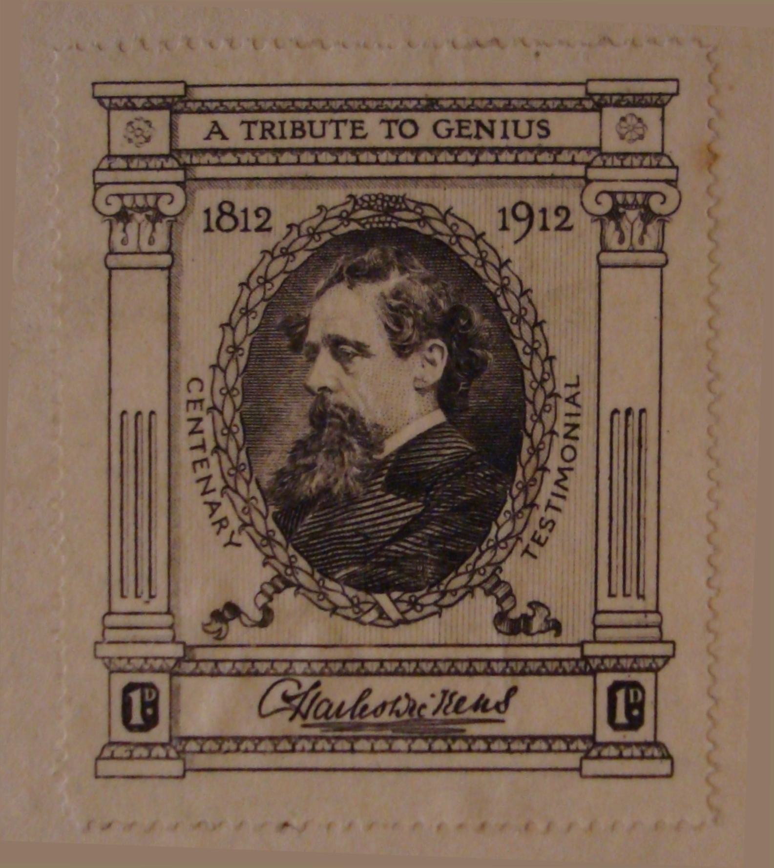 Stamp in:/Sello en las guardas de: The Centenary Edition of The Works of Charles Dickens in 36 Volumes. 36 vols. Chapman & Hall, Ltd.: London (and Charles Scribner’s Son: New York), 1910-1912.